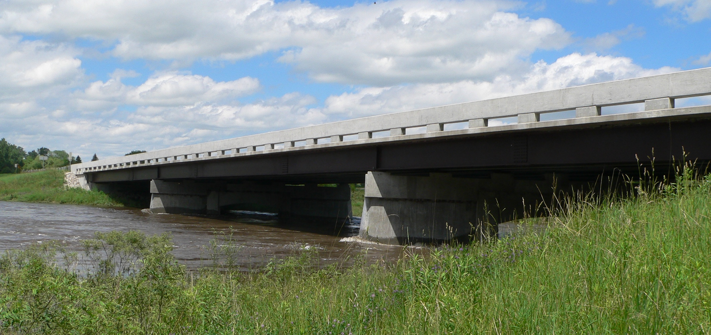 Burwell Bridge, seen from the southwest (upstream). The bridge carries Nebraska Highway 11 across the North Loup River at the northern edge of Burwell. The cantilevered beam bridge was built in 1940; it is listed in the National Register of Historic Places. At the time the picture was taken, the river was at an unusually high level.